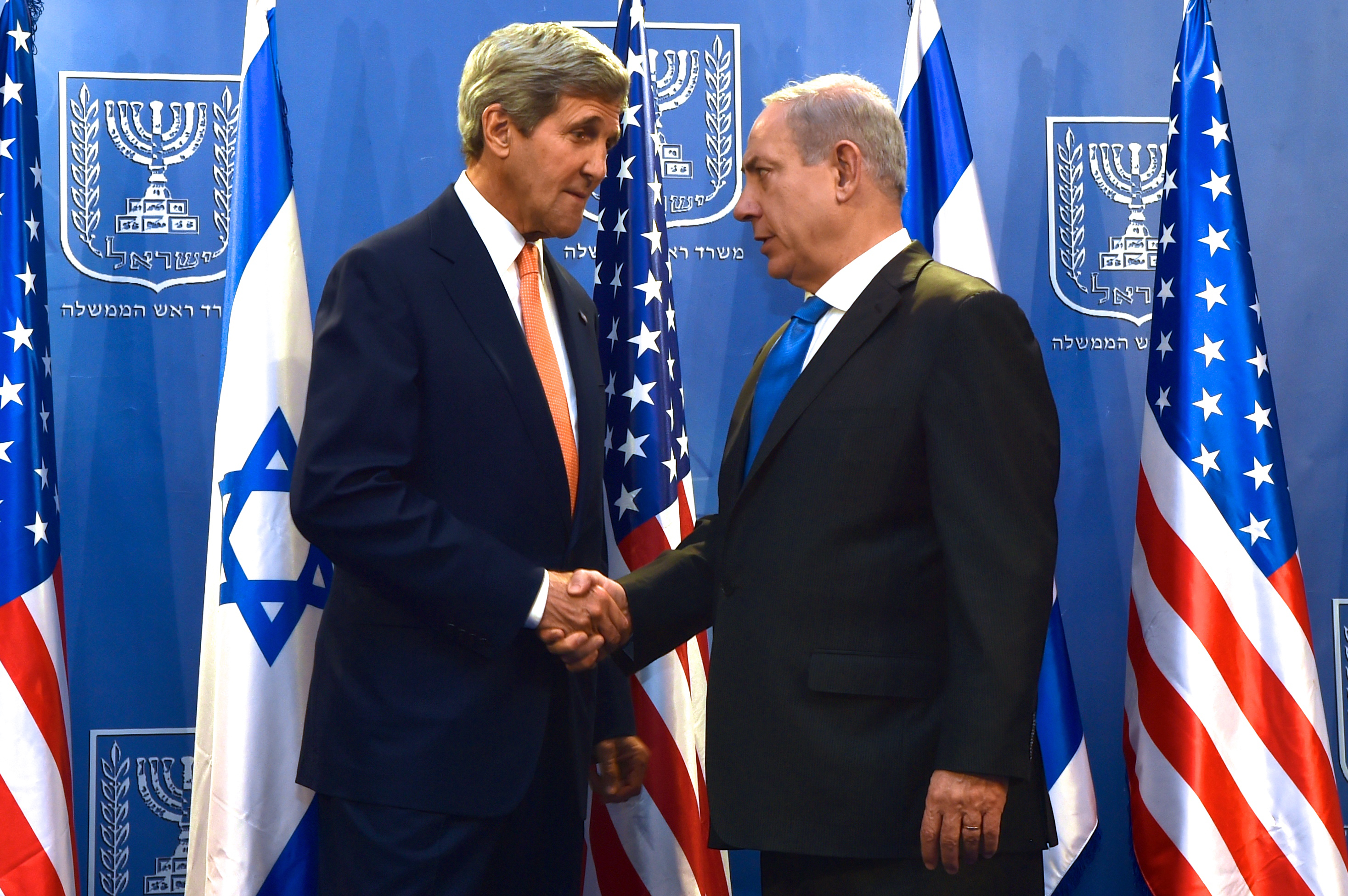 U.S. Secretary of State John Kerry shakes hands with Israeli Prime Minister Benjamin Netanyahu in Tel Aviv, Israel, on July 23, 2014, before the two sat down to discuss a possible cease-fire to stop Israel's fight with Hamas in the Gaza Strip.